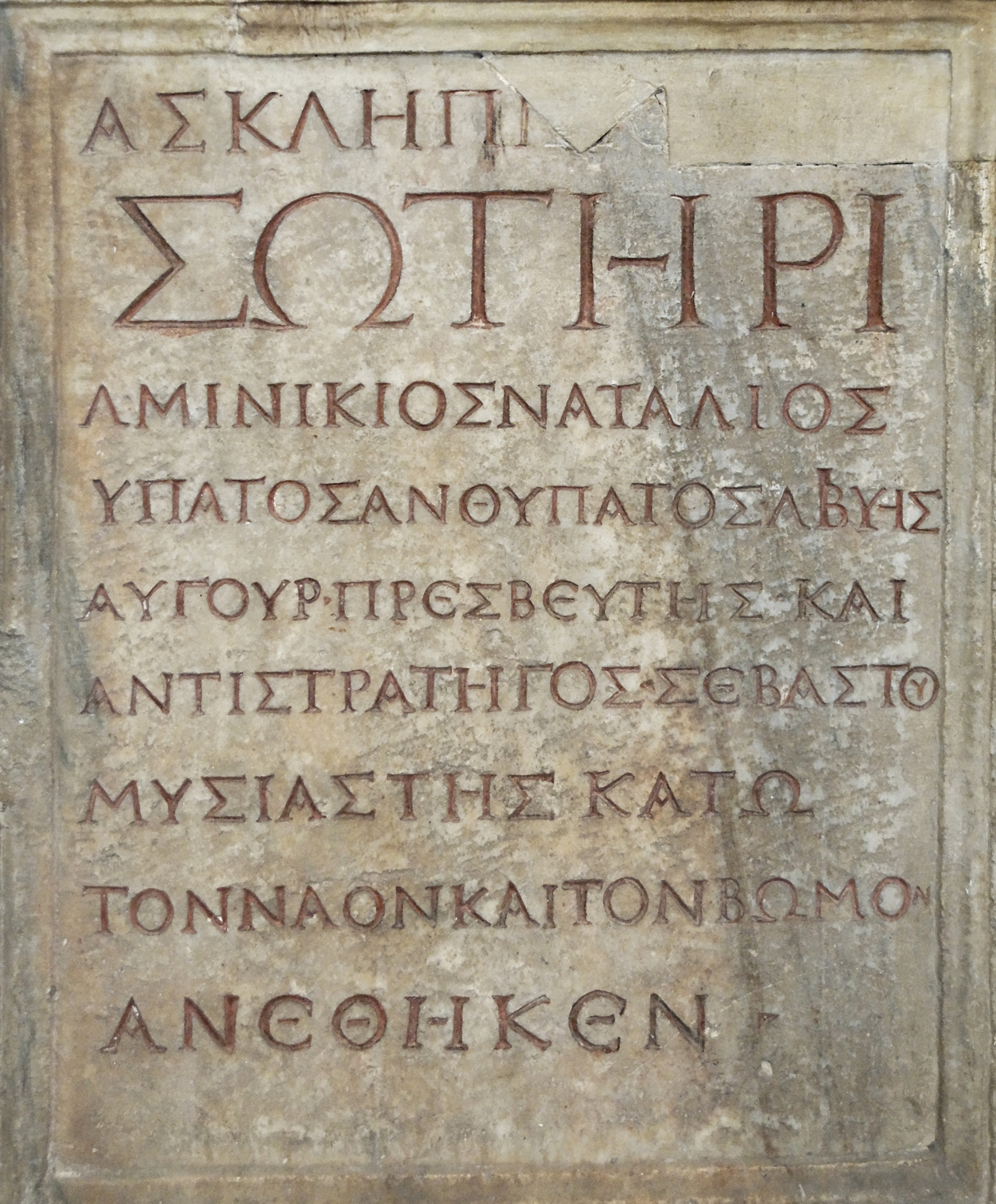 Altar dedicated to Asclepios by Lucius Minucius Natalis, consul 133–134 AD. Marble, Roman artwork. From Tivoli.